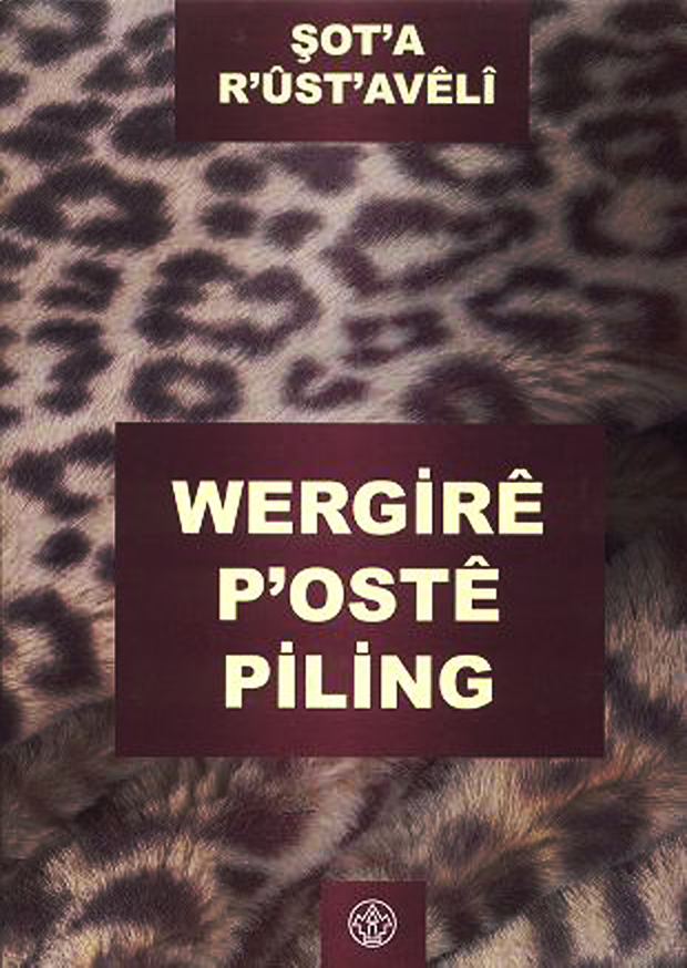 The Knight in the Panther's Skin in Kurdish